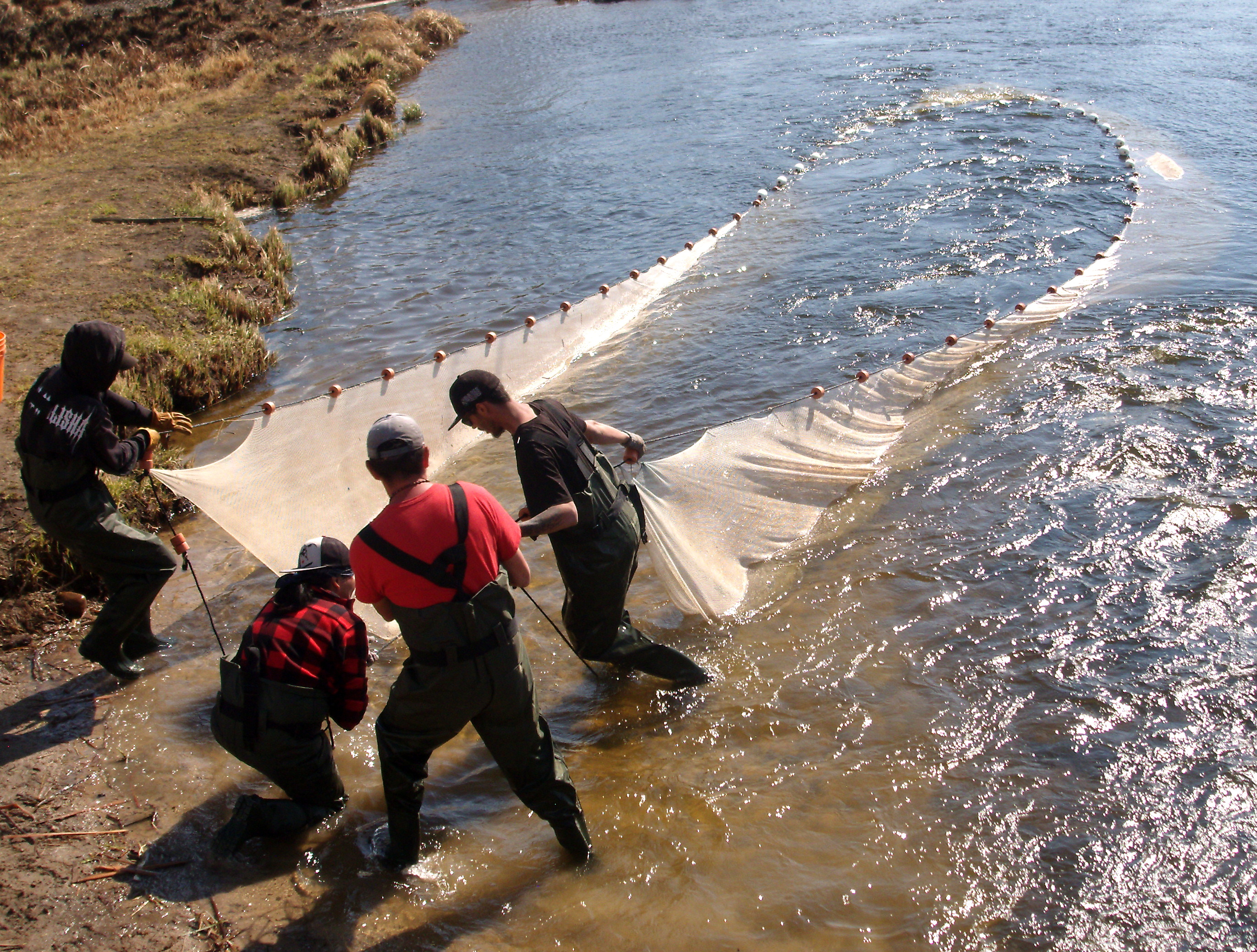 Catching minnows using a fine mesh net in La Loche, Saskatchewan. The net was extended from each bank of the Saleski River then pulled in, The minnows were then collected with a bucket.